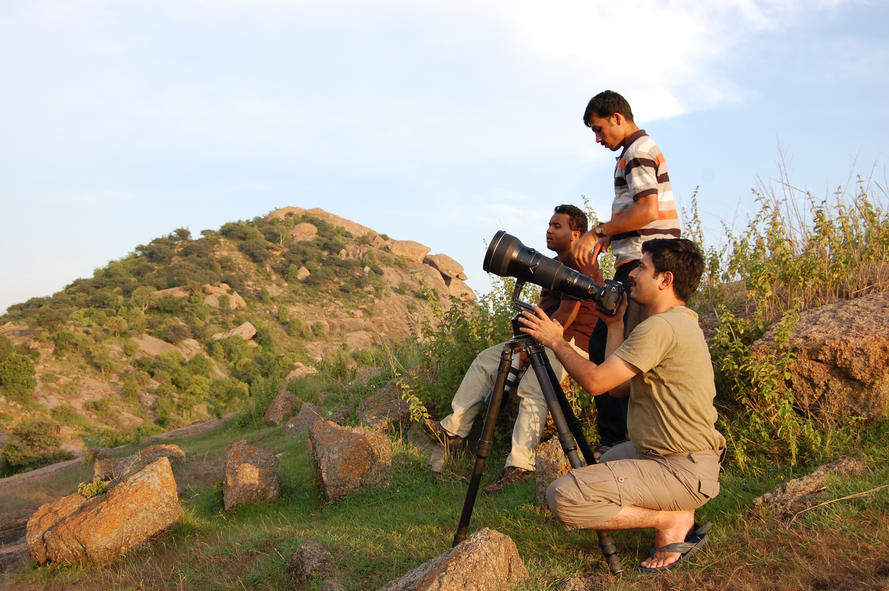 Photographers use a Tripod to stabilize cameras with heavy telephoto lens attachments to get sharp photographs